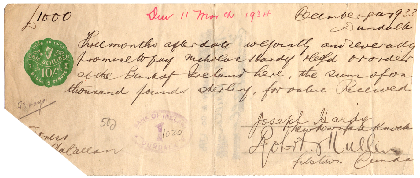 1934 Promissory Note with 10/- (ten shilling) revenue stamp indicia impressed dated 7 May 1933